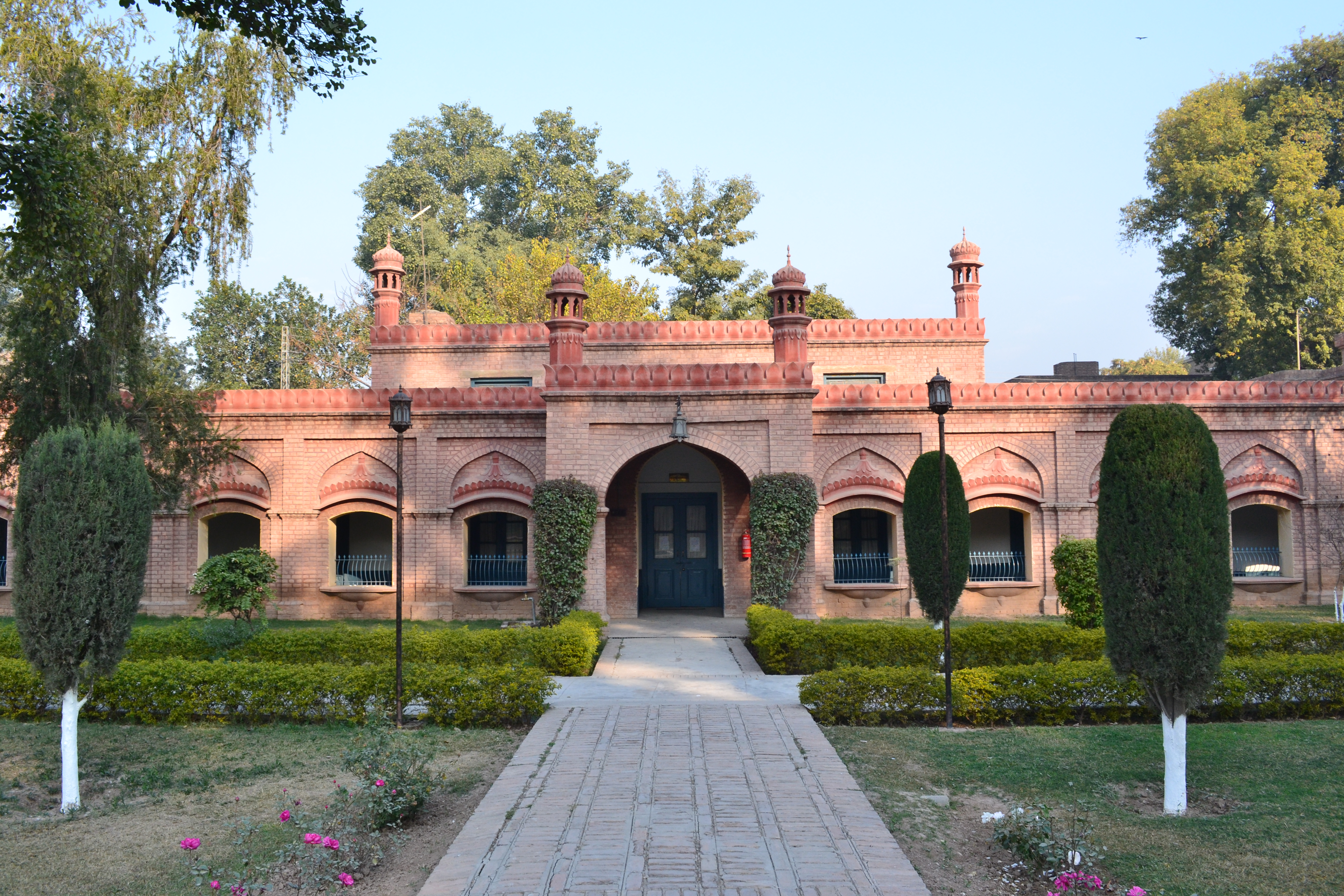 Edwardes College, Hostel, Peshawar, Pakistan